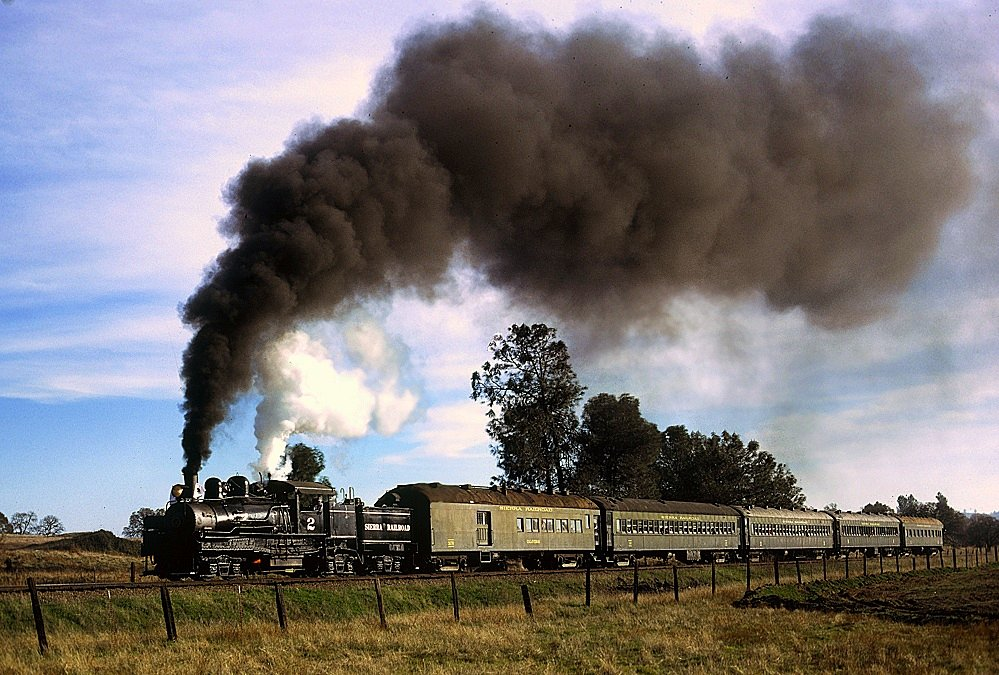 Sierra RR Shay #2 with a excursion train at Montezuma Dec. 30th 1979 The next to the last day of public steam operations under Crocker family ownership